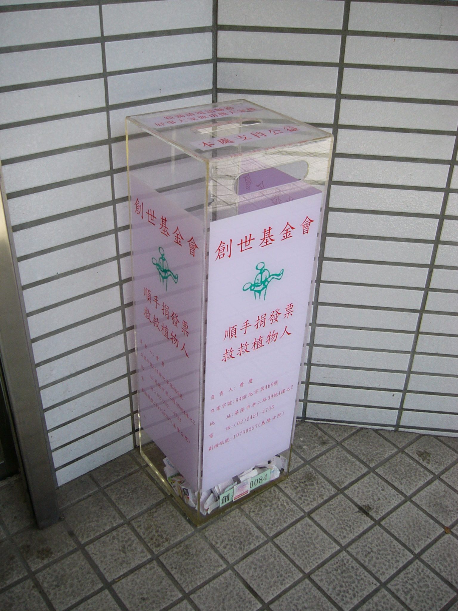 Genesis Social Welfare Foundation put this Uniform Invoice box in front of Baifu Branch, Qidu District Library, Keelung City.